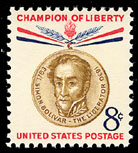 US stamp honoring Simon Bolivar